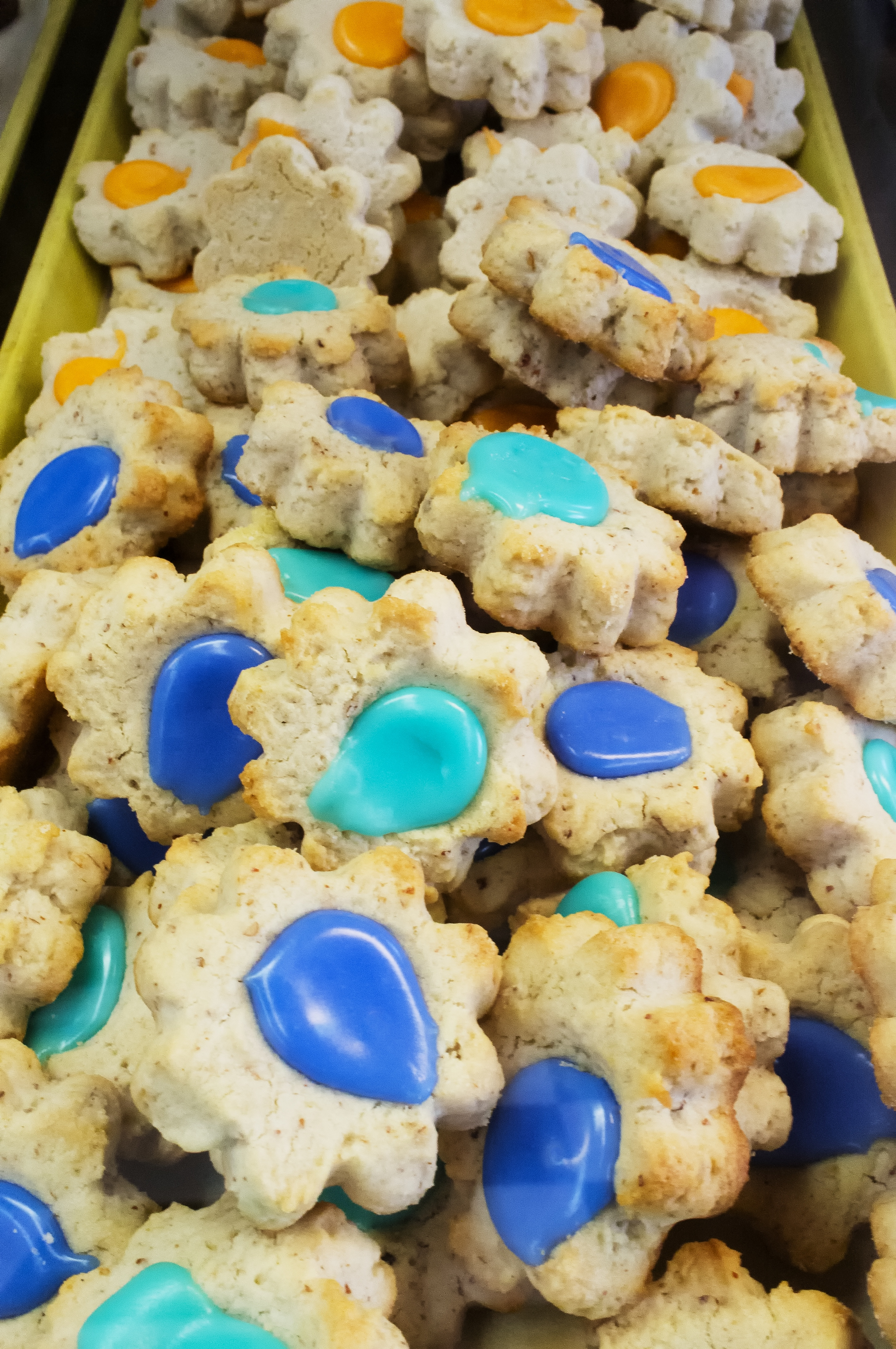 Thumbprint (filled) cookies in the case at Mi-Lady Bakery in Tifton, Georgia. We always stop by on the way home to Birmingham and buy a few dozen.